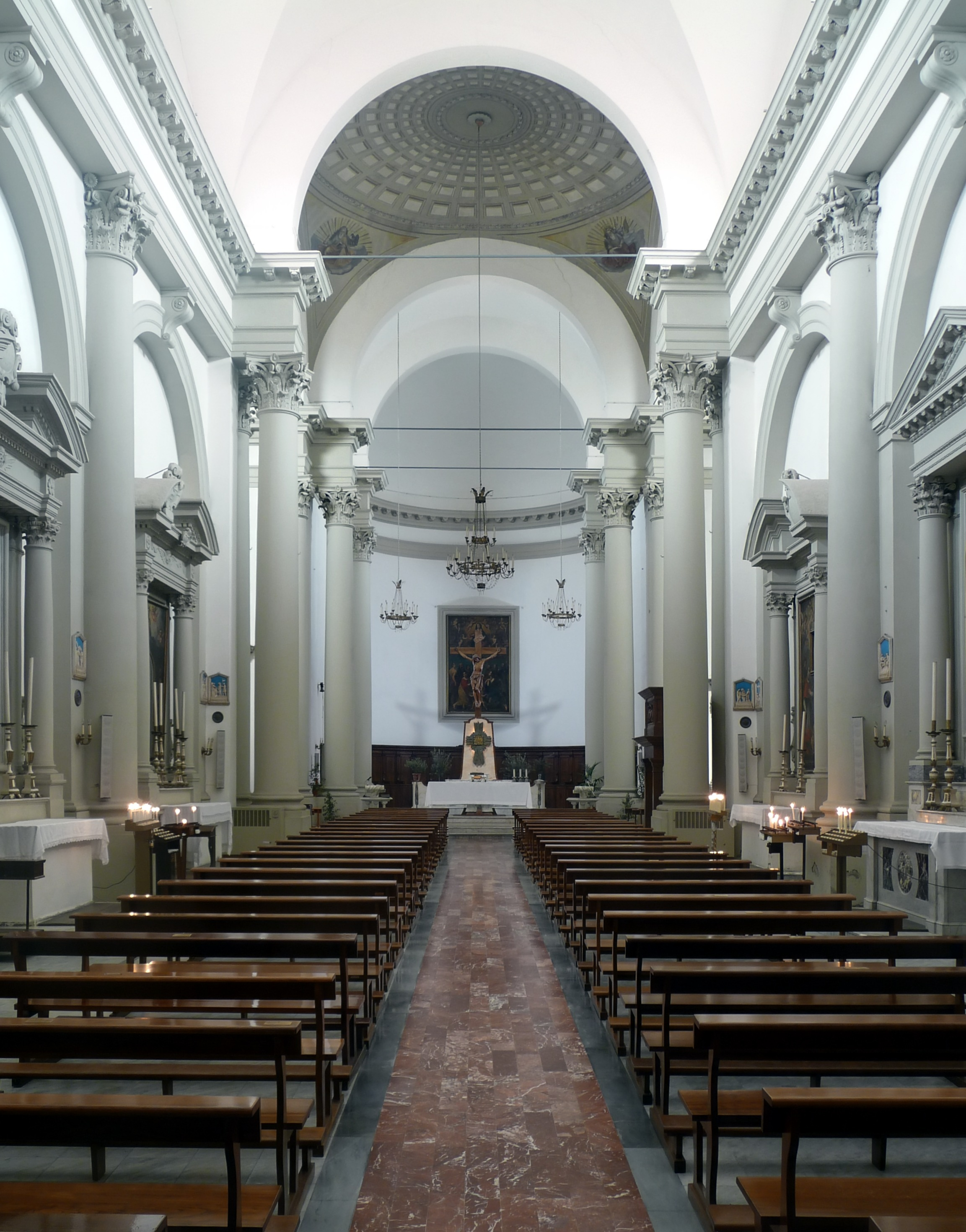 Church "Santa Maria della Neve", Chiesina Uzzanese, Province Pistoia, Tuscany, Italy